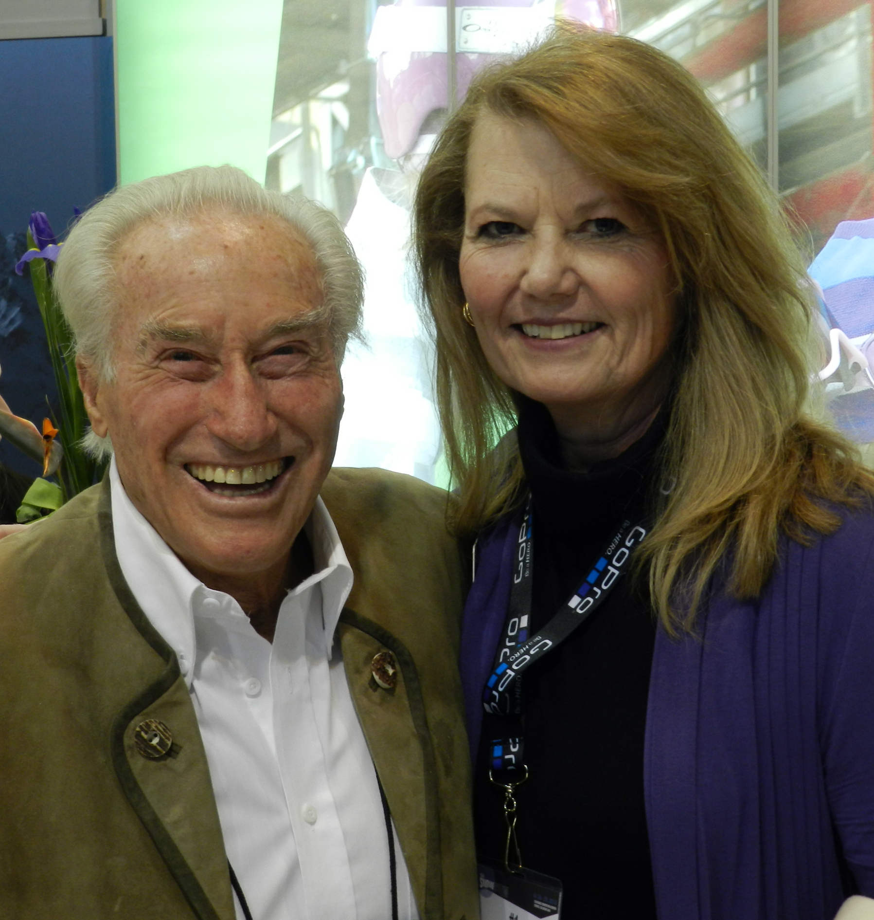 Legislators visit the SIA Snow Show. Learn more at